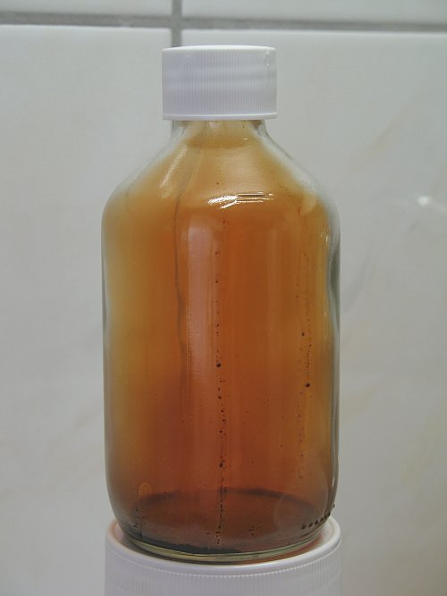 Iodine monochloride vapor with some iodine monochloride liquid